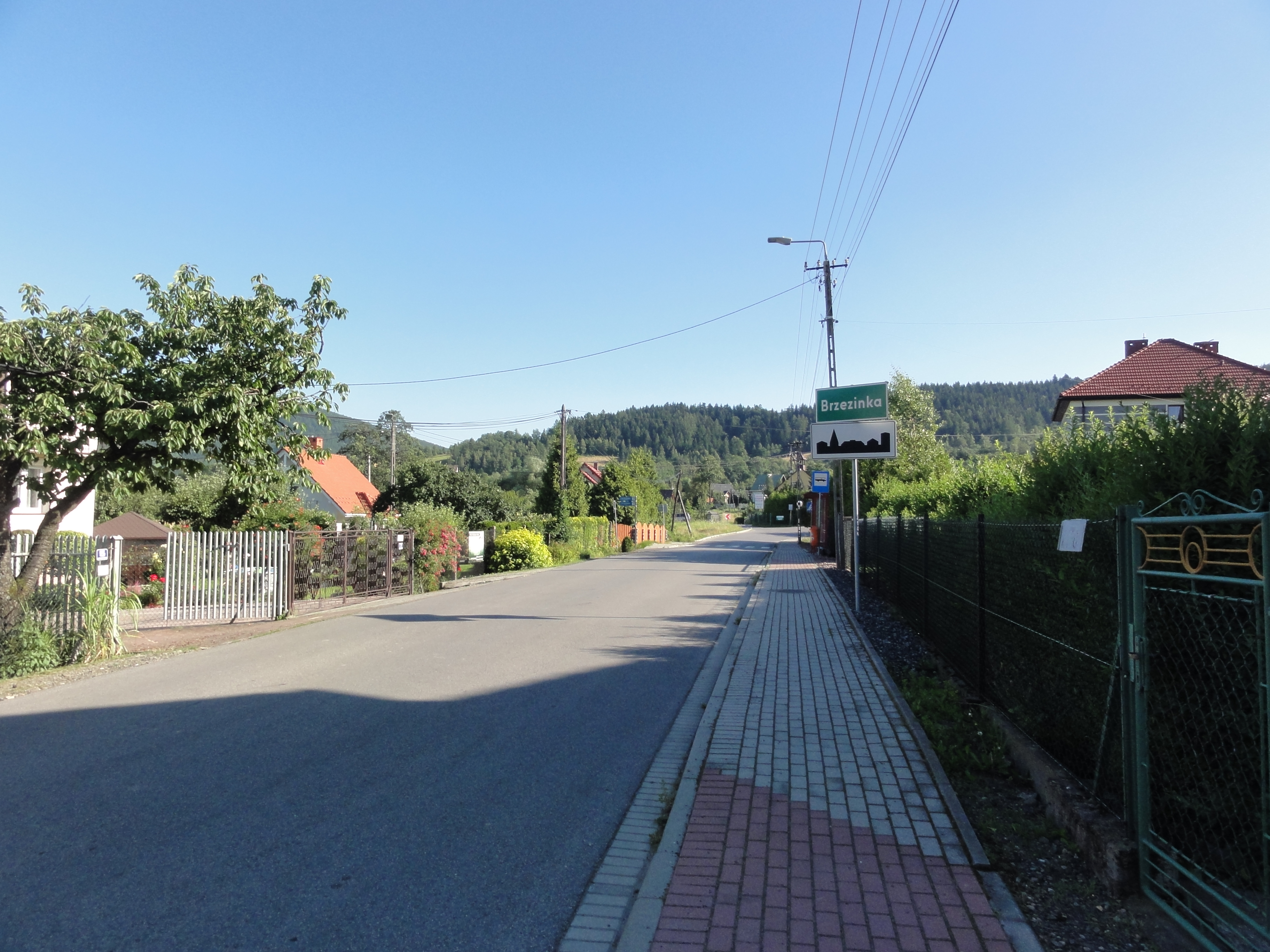 Brzezinka near Andrychów